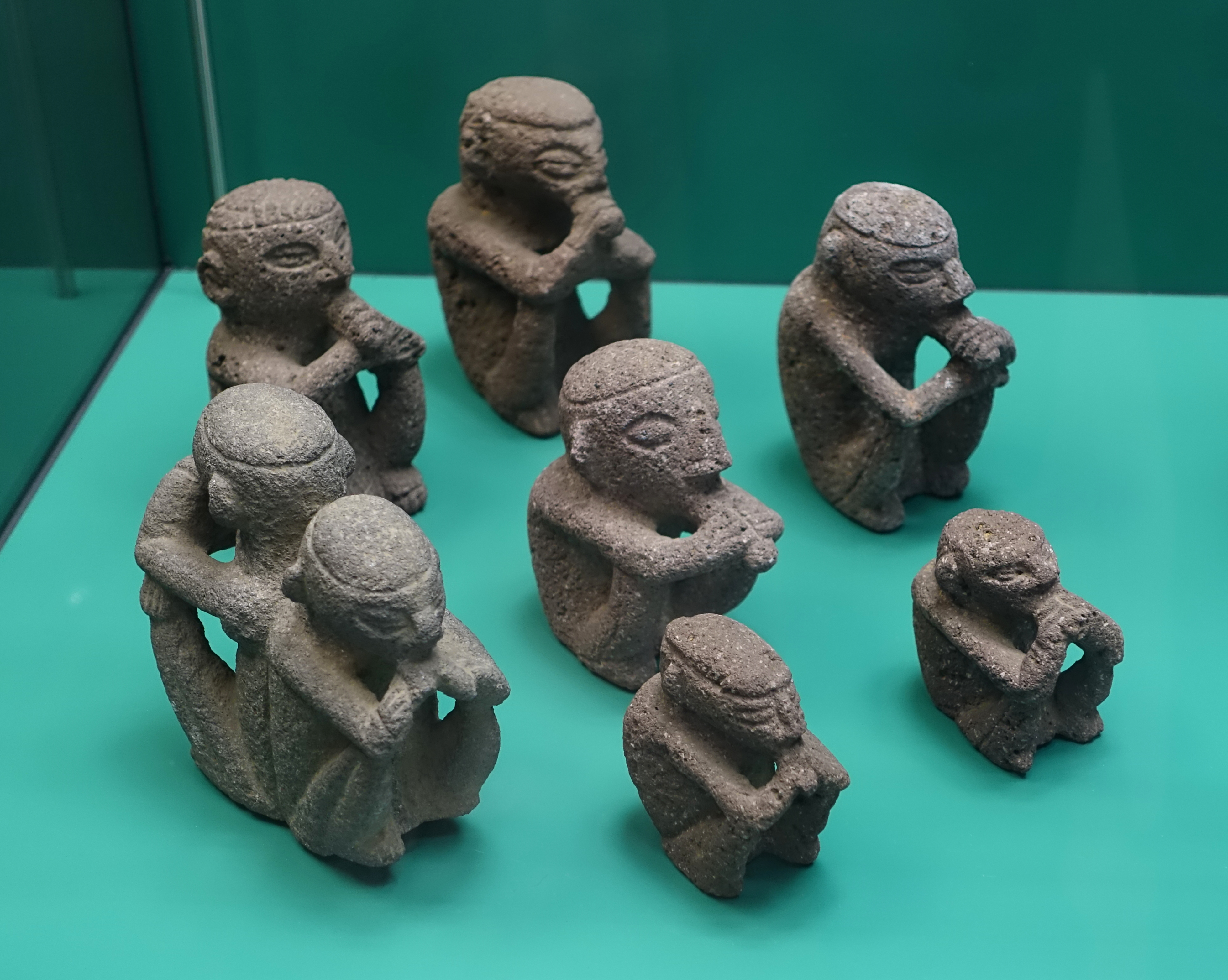 Exhibit in the Naturhistorisches Museum Nürnberg - Nuremberg, Germany.